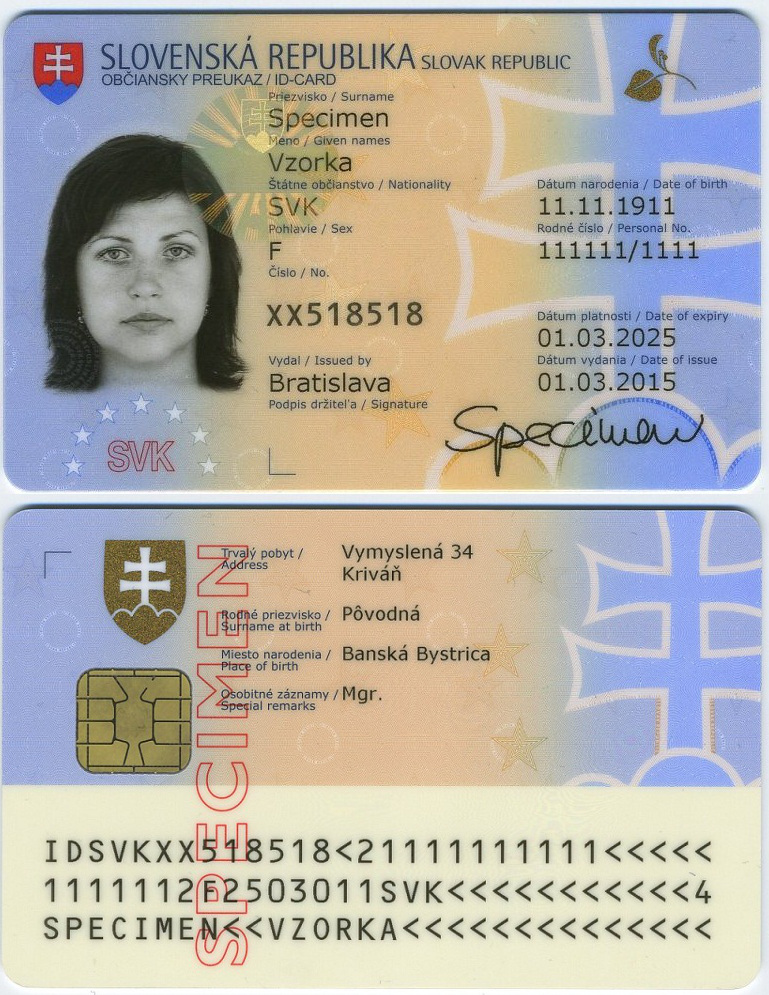 Current issue of the Slovak ID card